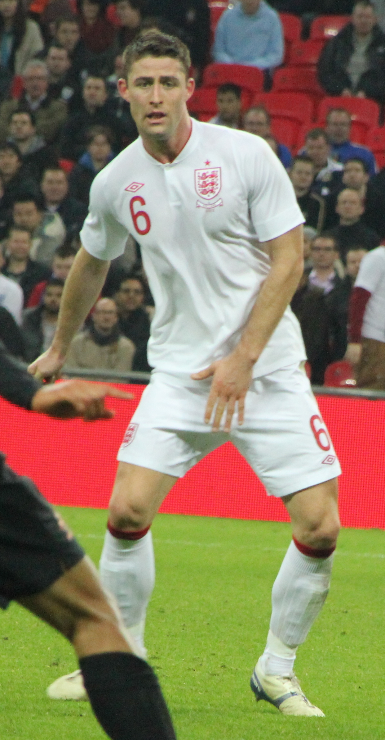 Gary Cahill playing for England against the Netherlands at Wembley Stadium on 29 February 2012